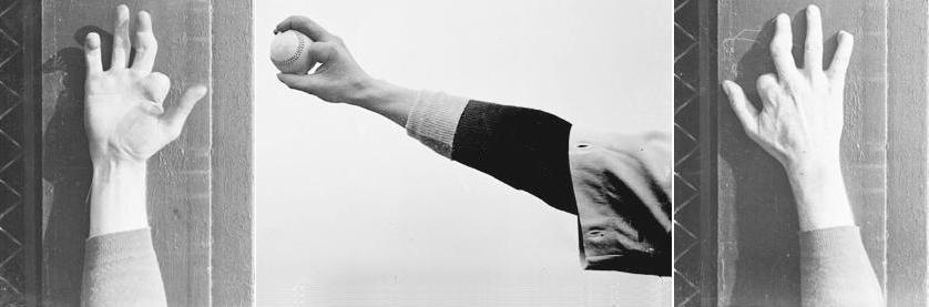 This is from the Chicago Daily News archive website. The photo in the middle was taken in 1905, the two flanking it were taken in 1913.